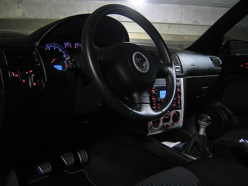 The interior of my GTI 20th Anniversary Edition No. 1426 by Patrick Fowler